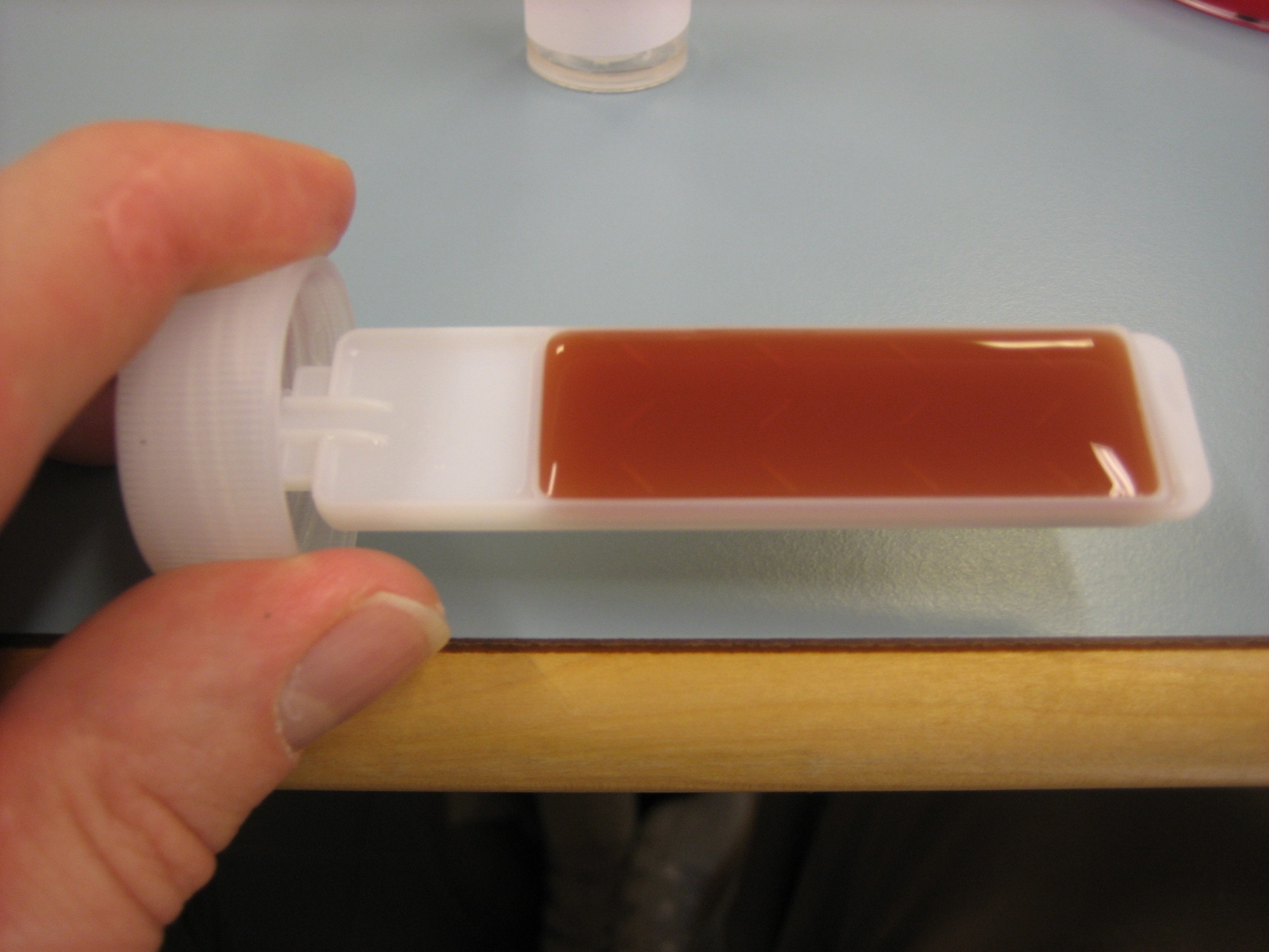 A clear McConkey/E. coli cultivation plate after incubation showing no microbial growth. The growth media plate was immersed in an urine sample and kept in an incubator for 24 hours.